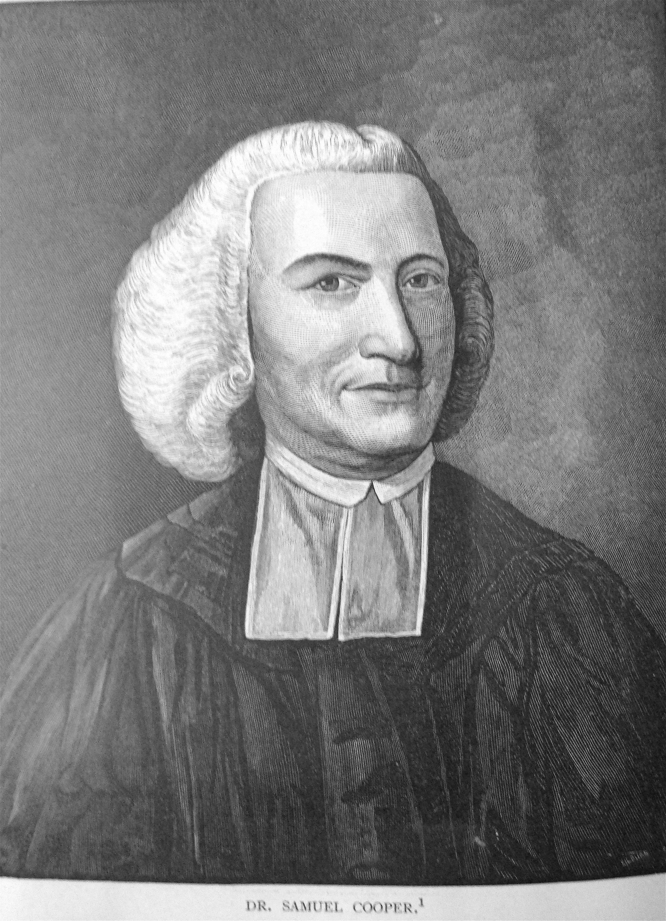 Portrait of Samuel Cooper, of Boston's Brattle St. Church, 18th c.